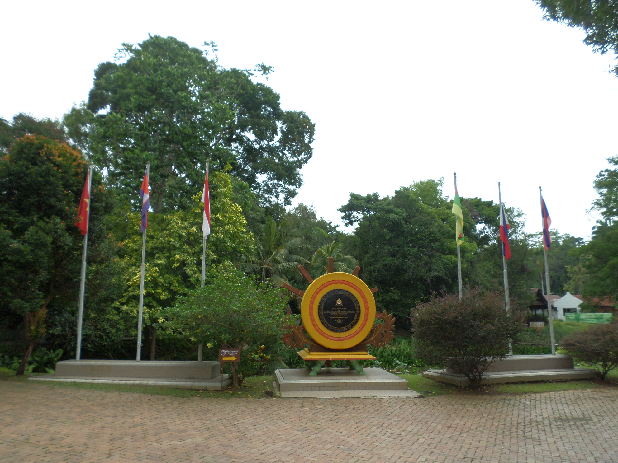 Mini ASEAN, Mini Malaysia and ASEAN Cultural Park, Ayer Keroh, Malacca, Malaysia